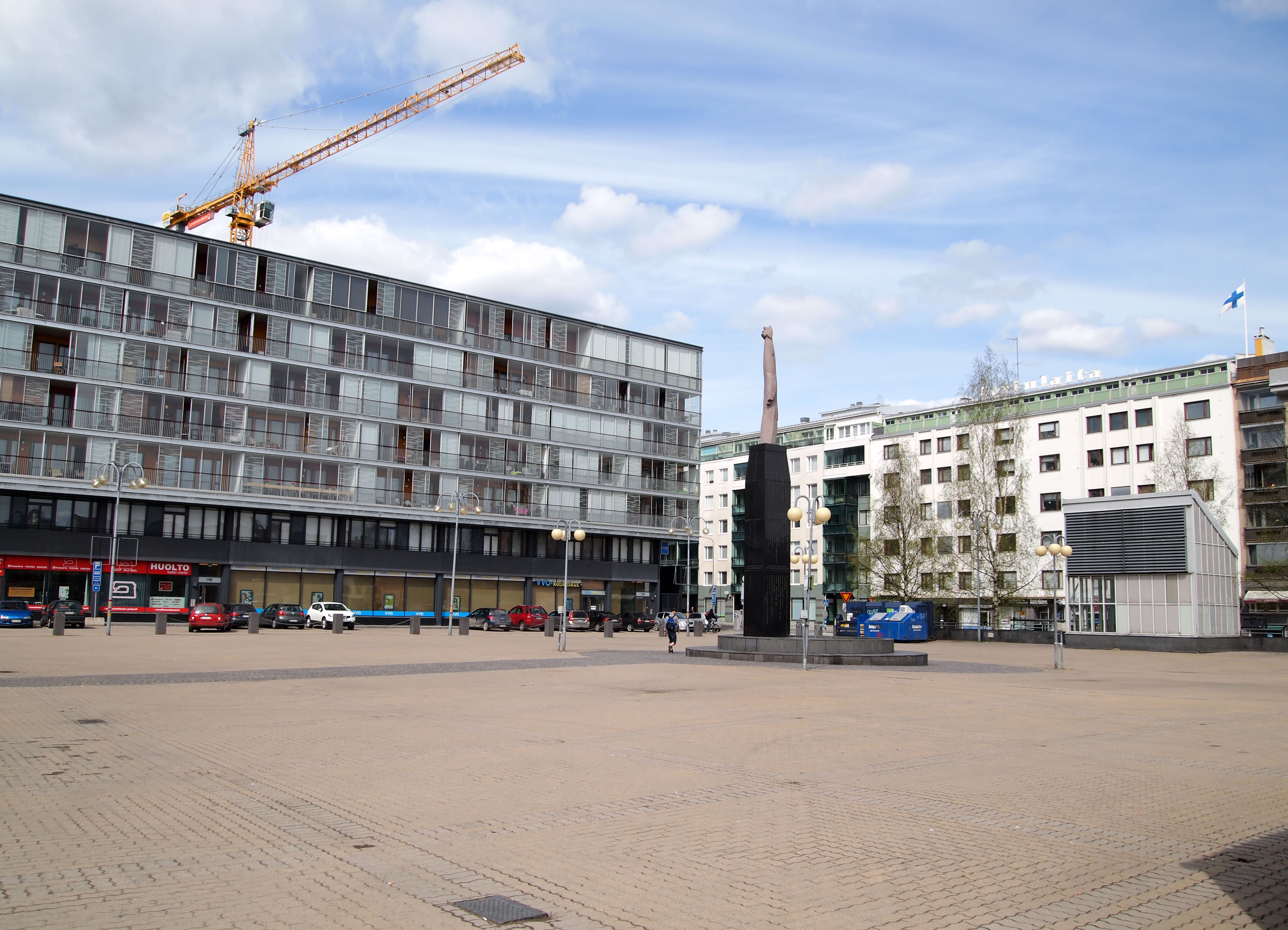 Market-place in Harju district, Jyväskylä.